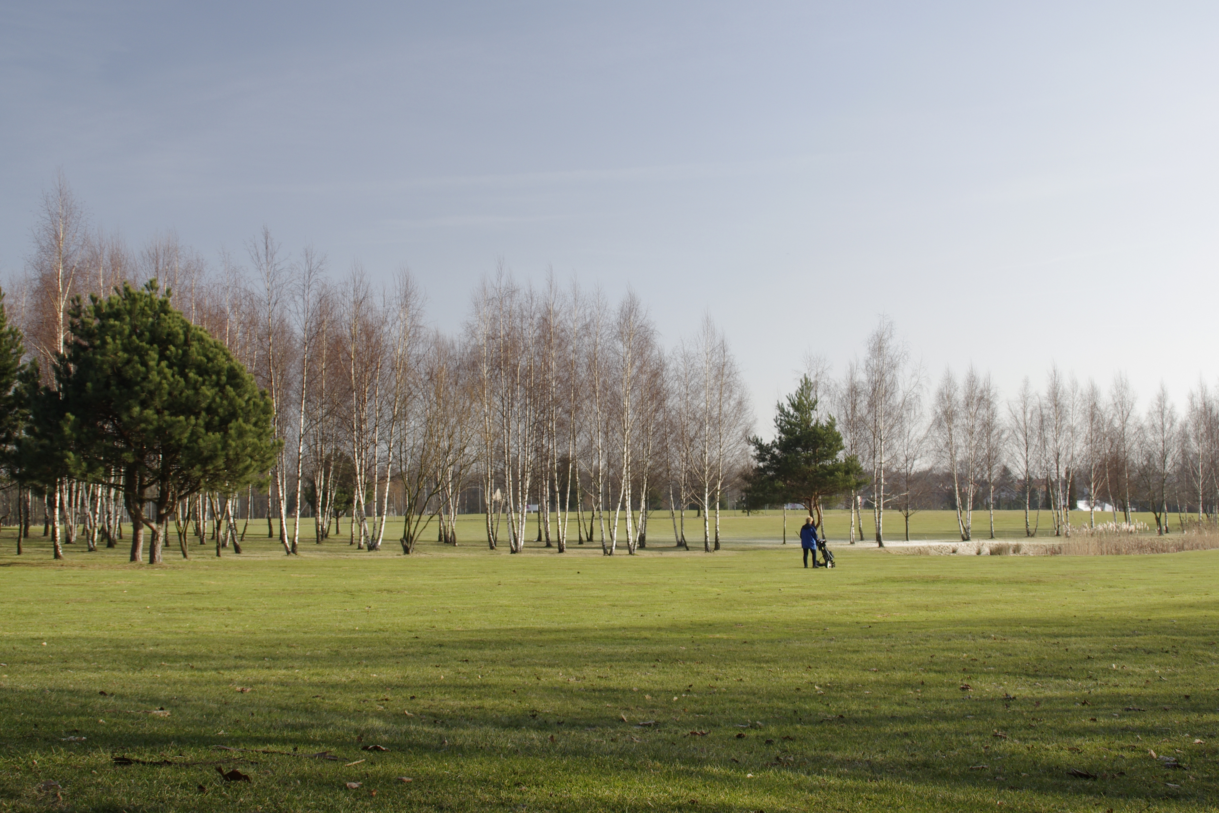 golf course in Siemianowice Śląskie